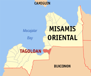 Map of the Misamis Oriental showing the location of Tagoloan